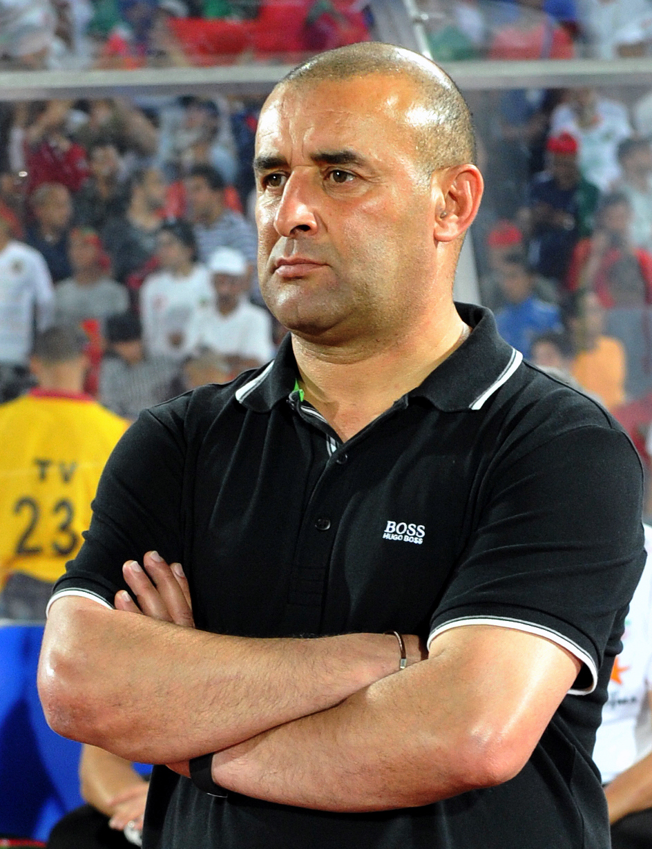 Abdelhak Benchikha, national football team manager of Algeria, during the game Algeria vs Morocco, June 4, 2011.